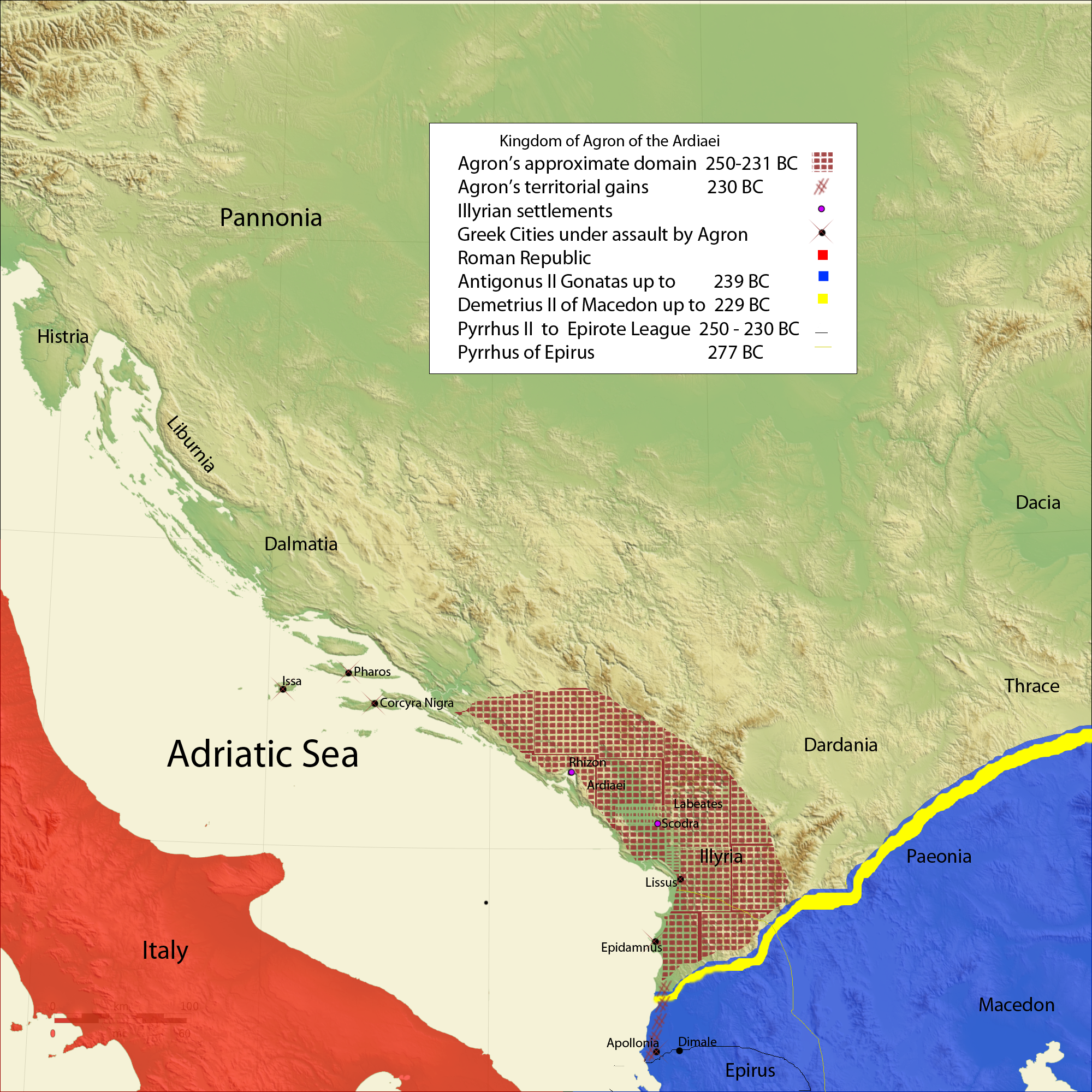 Kingdom of Agron of the Ardiaei and neighboring kingdoms. A History of Macedonia: 336-167 B.C By Nicholas Geoffrey Lempriere Hammond, Frank William Walbank,1988,ISBN -0198148151 Epire, Illyrie, Macedoine: melanges offerts au professeur Pierre Cabanes by Daniele Berranger,Pierre Cabanes,Daniele Berranger-Auserve The Illyrians by J. J. Wilkes,1992,ISBN 0631198075, Epirus, 4000 years of Greek history and civilization by M. B. Hatzopoulos Blank map,File:Yugoslavia_topographic_base_map.svg